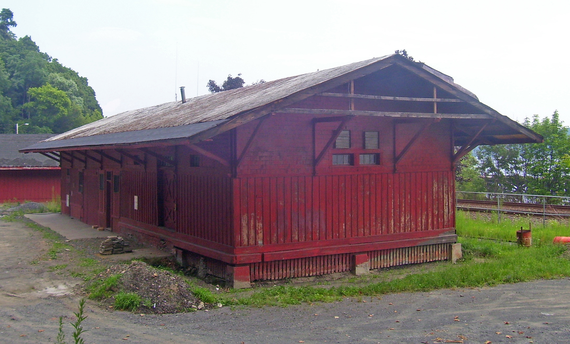 Former West Shore Line passenger station on Hudson River at Milton, NY, USA